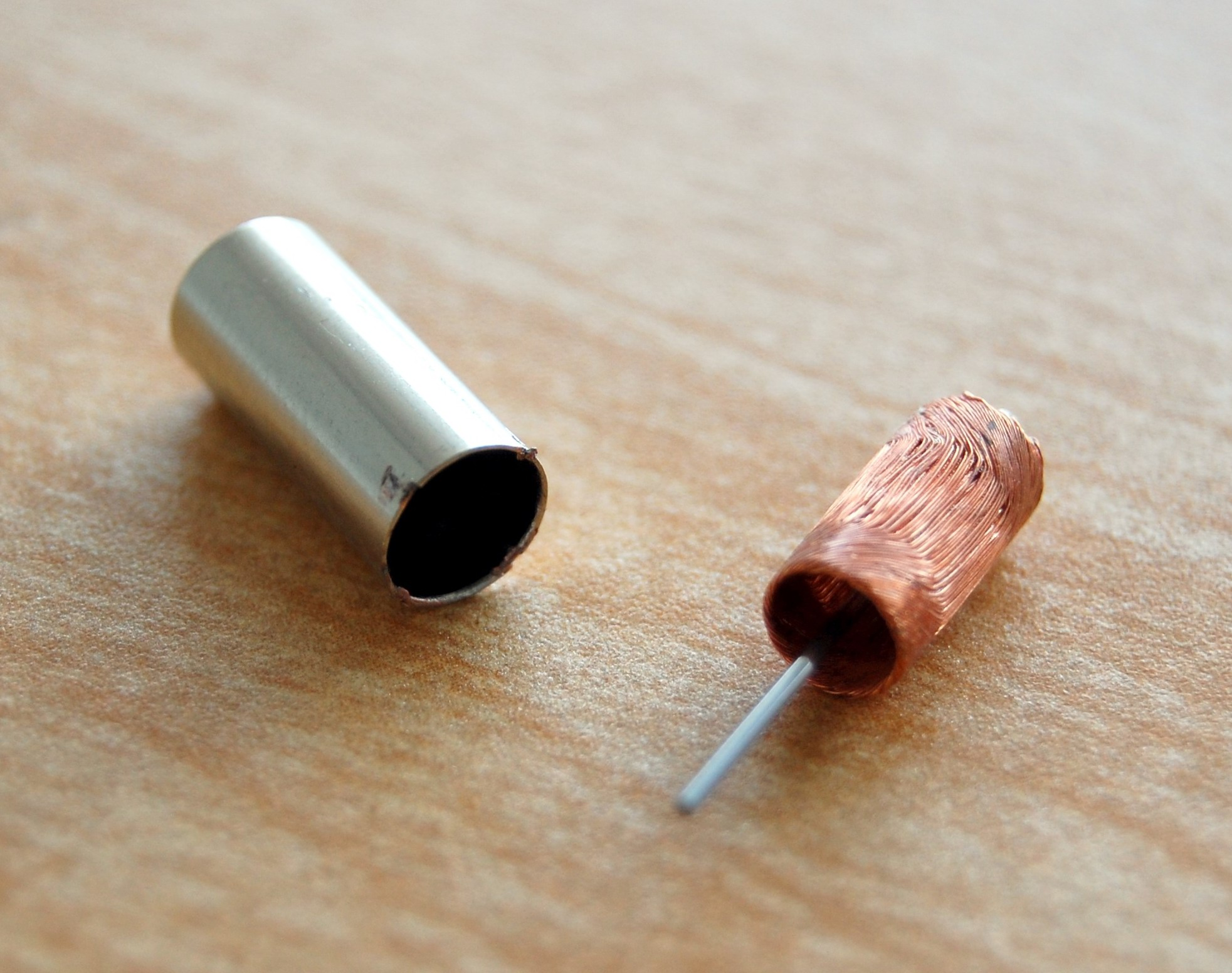 A dissected view of a coreless DC motor.